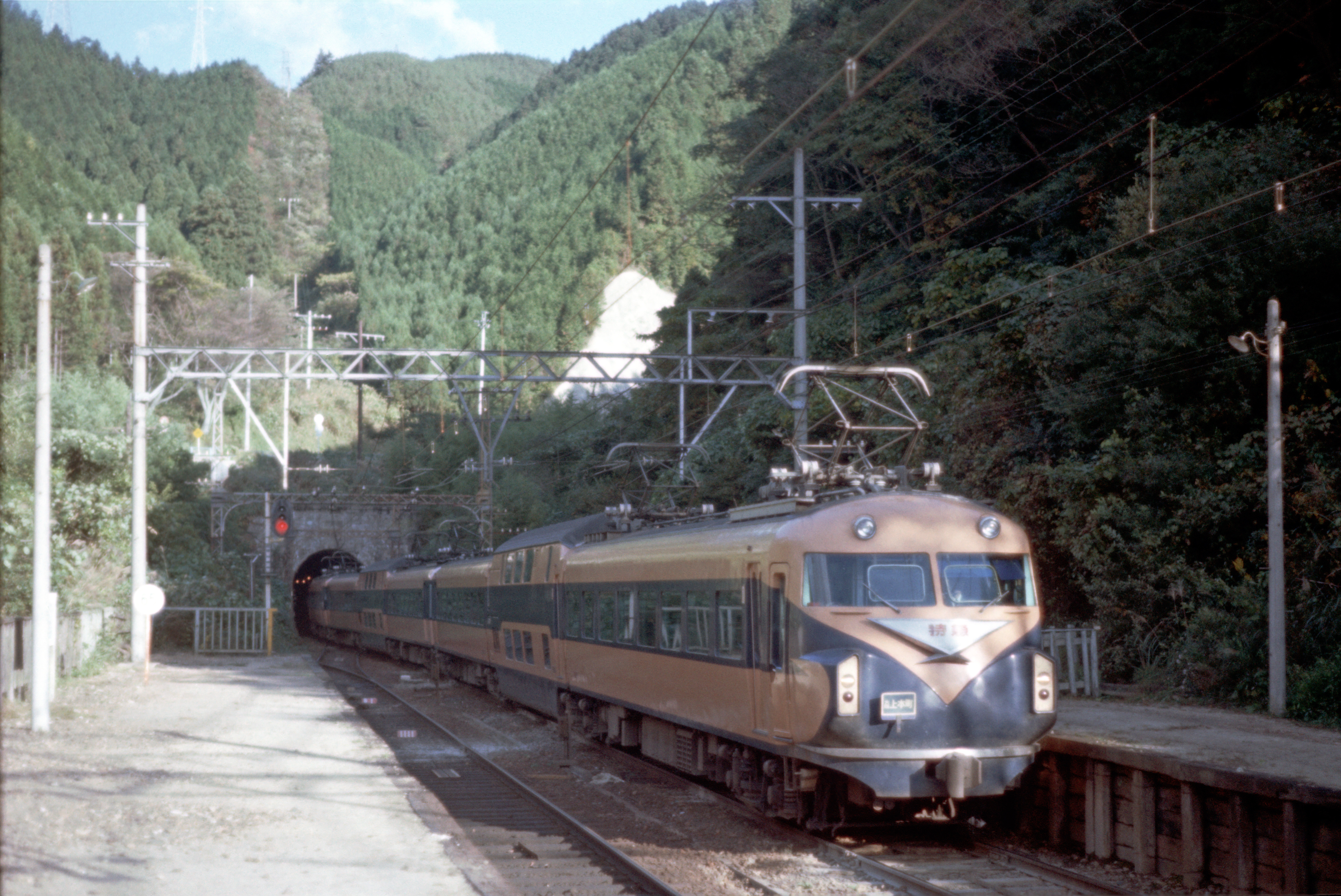 The Kintetsu 10100AC and 12200 series limited express bound for Osaka-Uehommachi running through the old Aoyama tunnel into Nishi-Aoyama station.